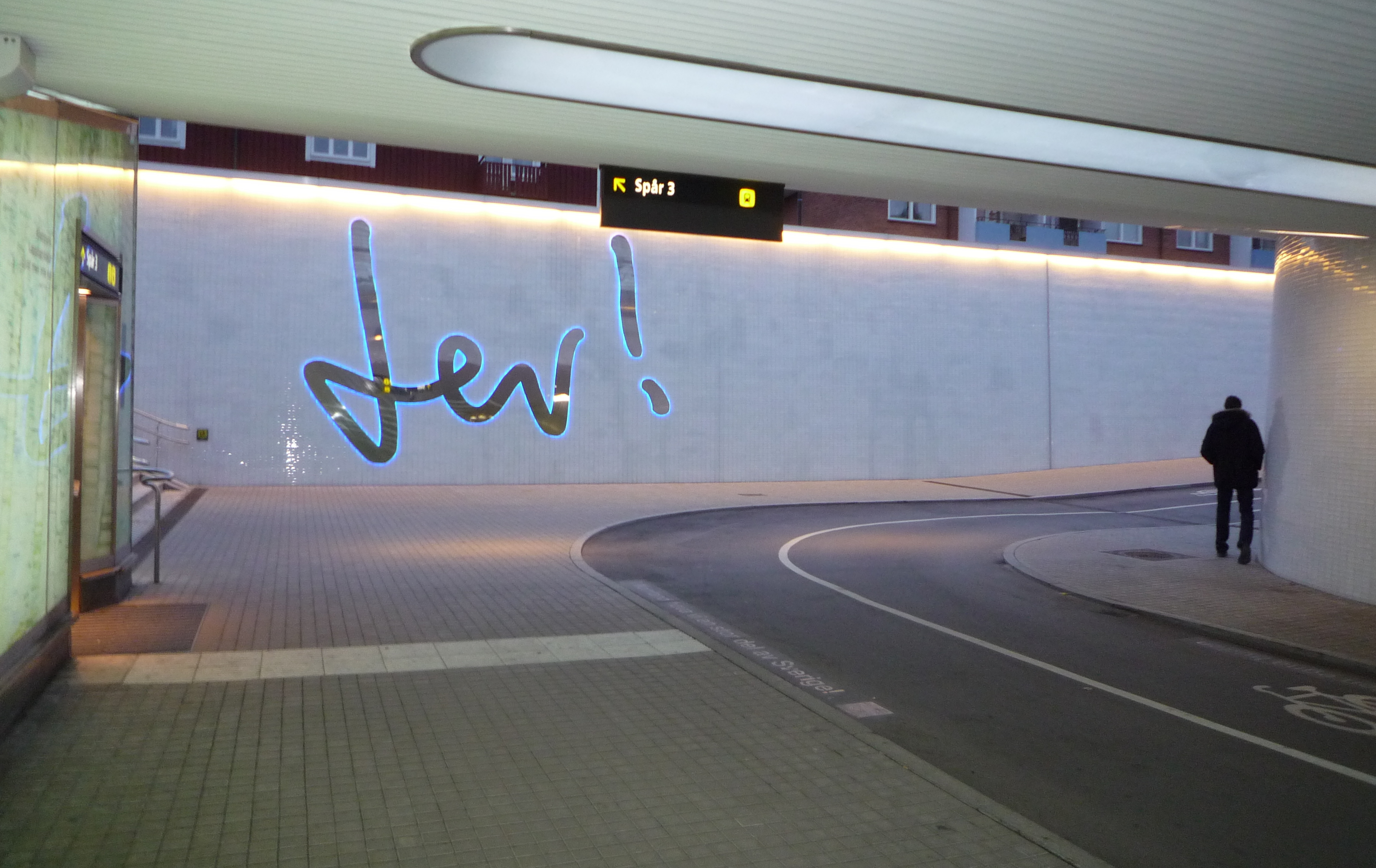 Outdoor Art work "Lev!" ("Live!") by duo FA+ with walls of glass in the tunnel under Umeå Central Station. Northern wall at dusk.